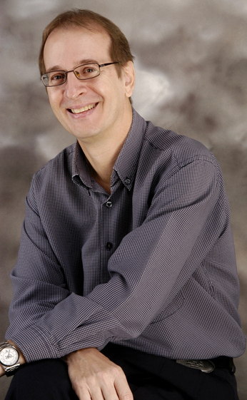 Portrait picture of American writer Robert Raymer.